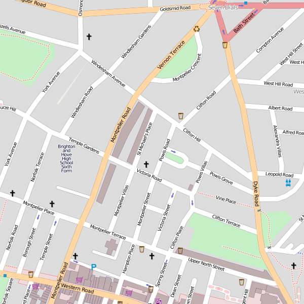 A map of the Montpelier and Clifton Hill area of the City of Brighton and Hove, England, derived from OpenStreetMap (permalink)